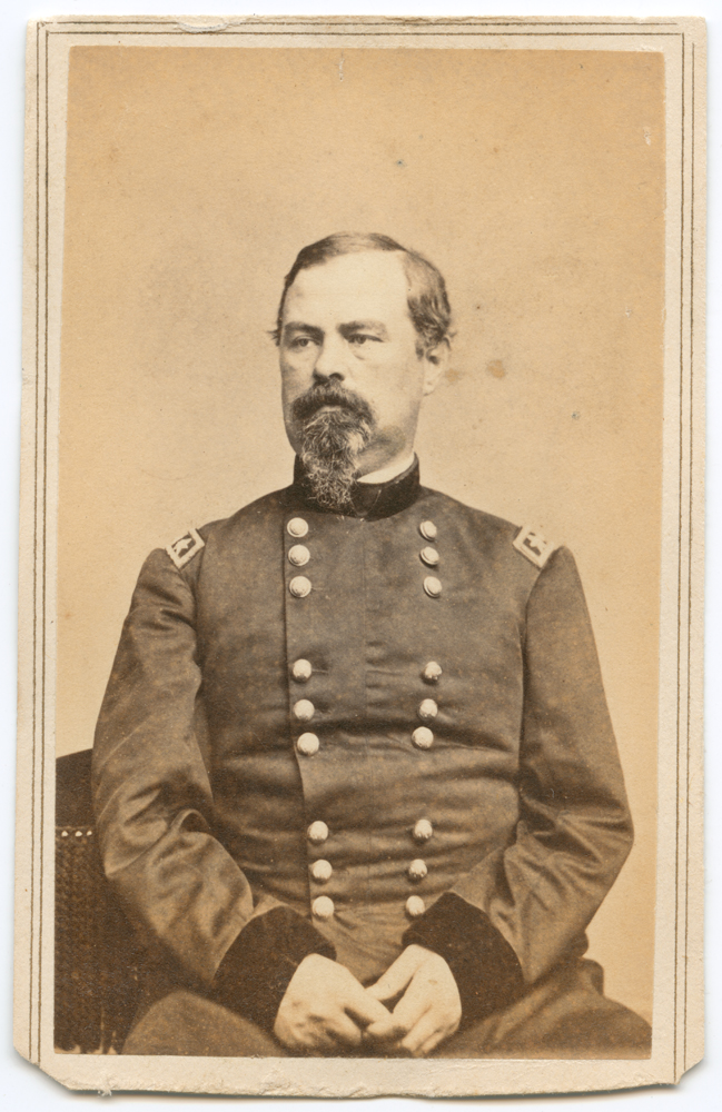 Title: McDowell Alternative Title: [General Irvin McDowell, Union Army] Creator: Charles D. Fredricks & Co. Date: ca. 1861-1864 Part of: Physical Description: 1 photographic print on carte de visite mount: albumen; 10 x 6 cm. File: ag2007_0007_116c_mcdowell.jpg Rights: Please cite DeGolyer Library, Southern Methodist University when using this file. A high-resolution version of this file may be obtained for a fee. For details see the web page. For other information, . For more information and to view the image in high resolution, View the